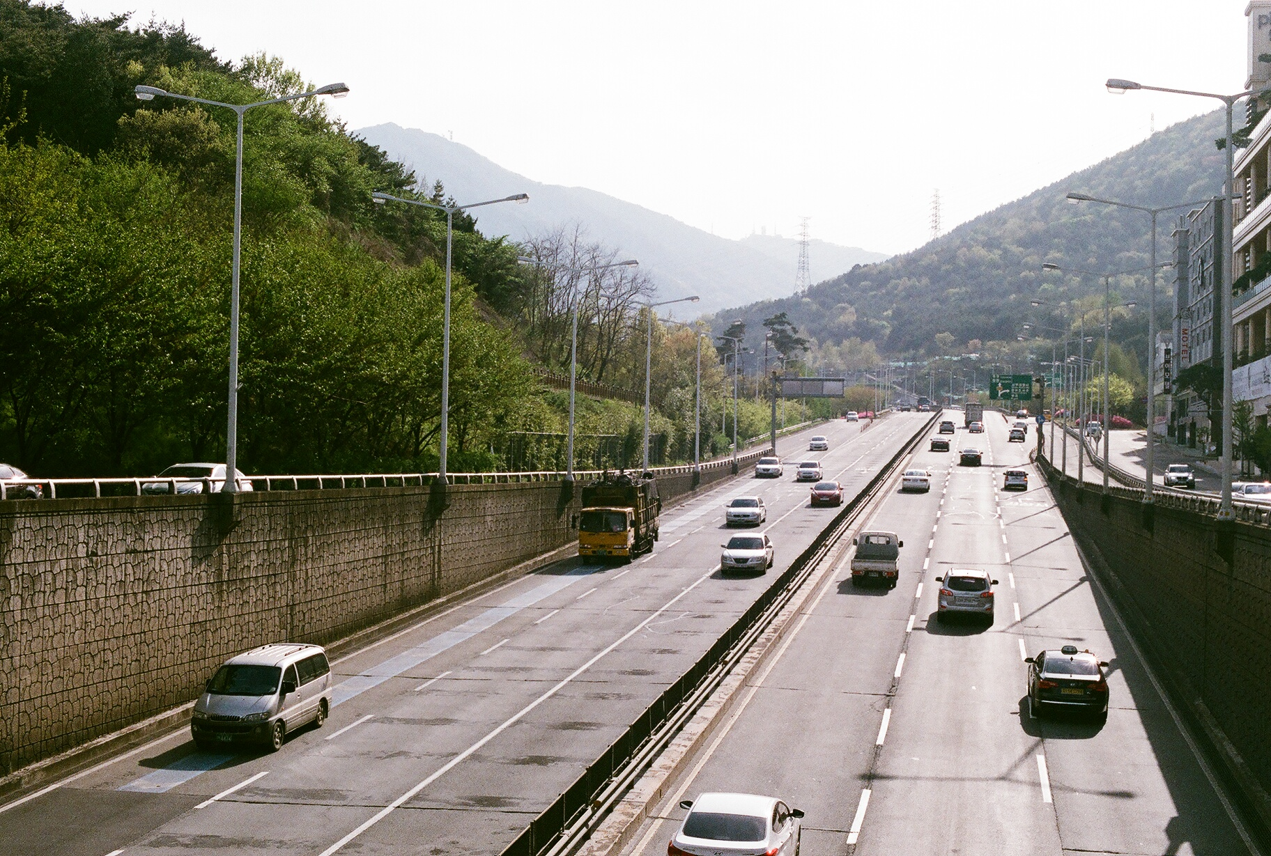 Heading to Changwon, Local Road(jibangdo in Korean) 1020, Taken from Daecheong-dong, Gimhae, South Korea.